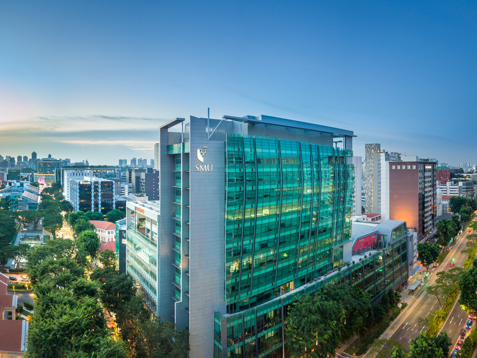 SMU Adminstration Building